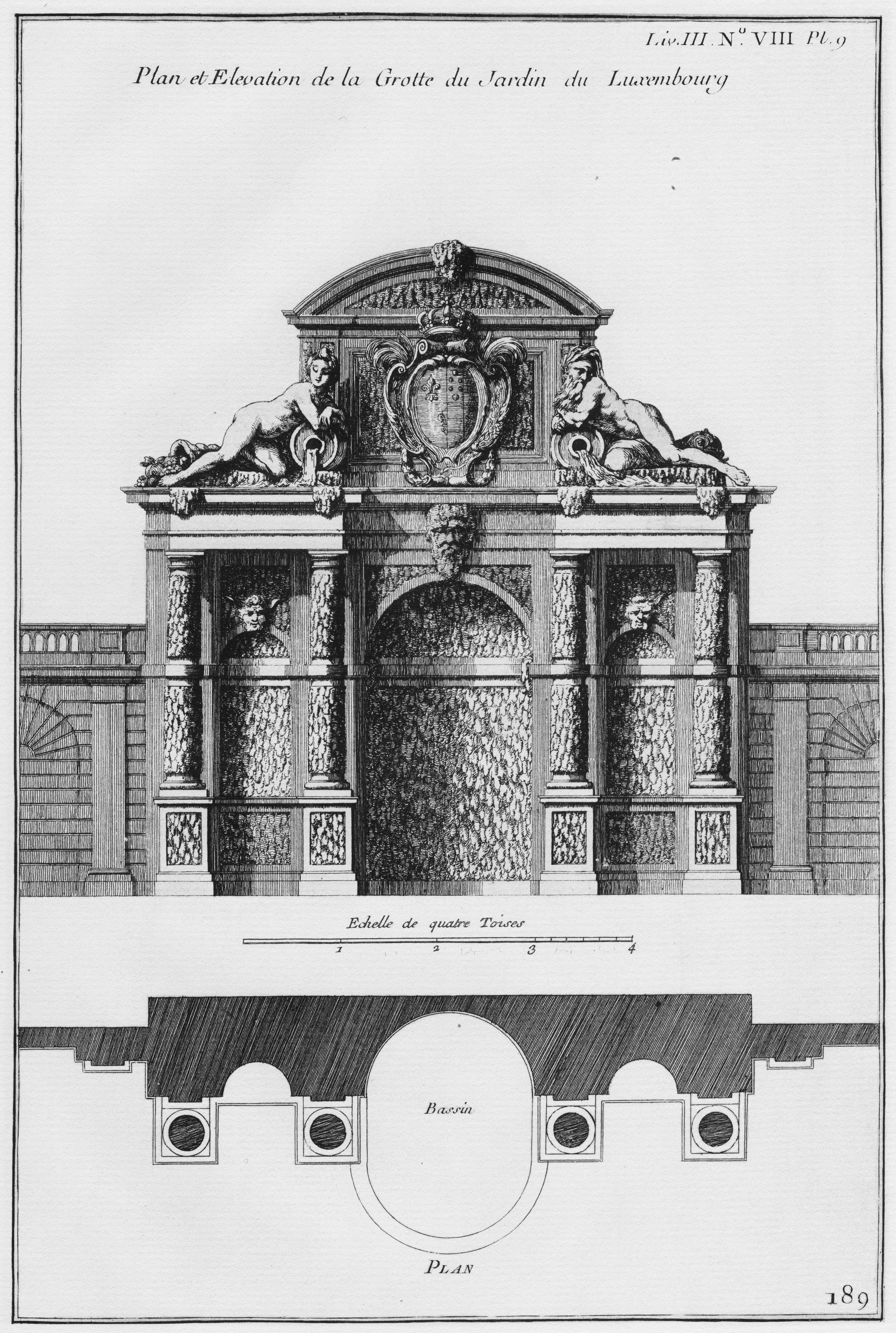 Plate 9. Plan and elevation of the grotto in the garden of the Palais du Luxembourg in Paris. From Architecture françoise, Tome 2, Livre 3, Chapitre 8 (following p. 54 of the 1904 reimpression). For the original French text discussing this plate, see p. 55 of tome 2 (at Gallica).